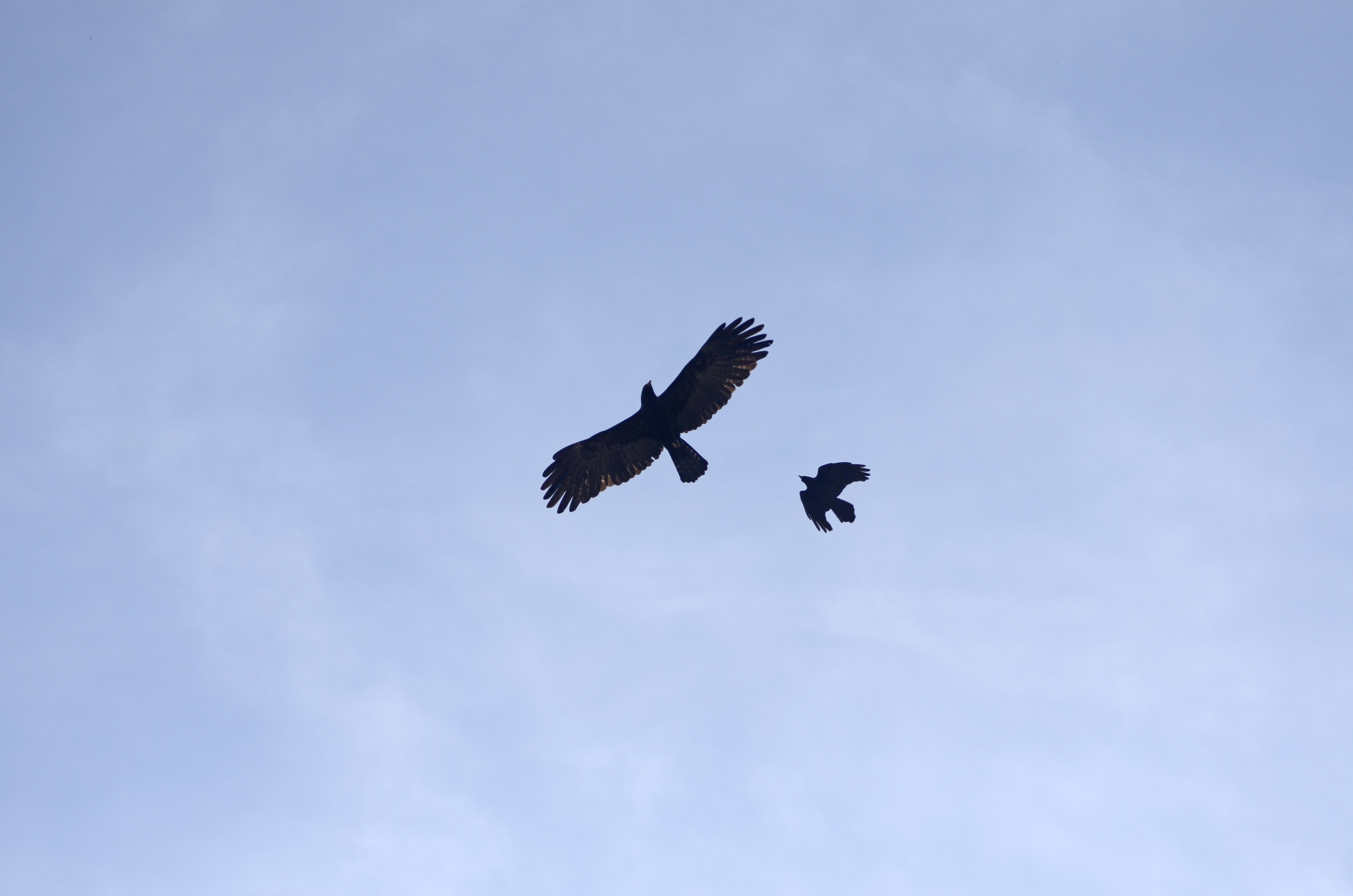 black eagle mobbed by large-billed crow_2